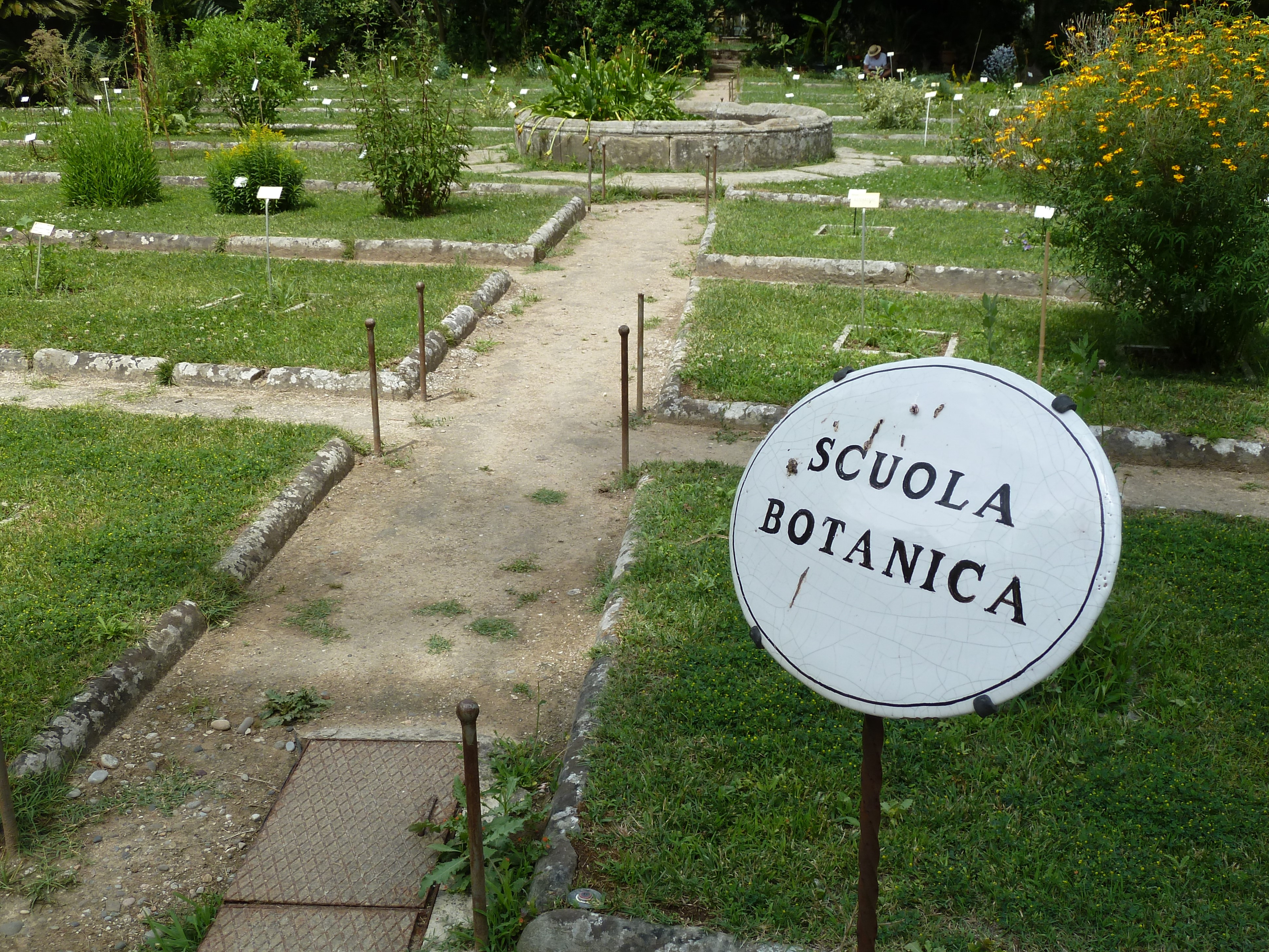 Orto botanico di Pisa plants. Order beds have been a part of botanical gardens since, or almost since, their inception in the 1540s at Pisa. The sign, reads "SCUOLA BOTANICA", Italian for "botanical school".